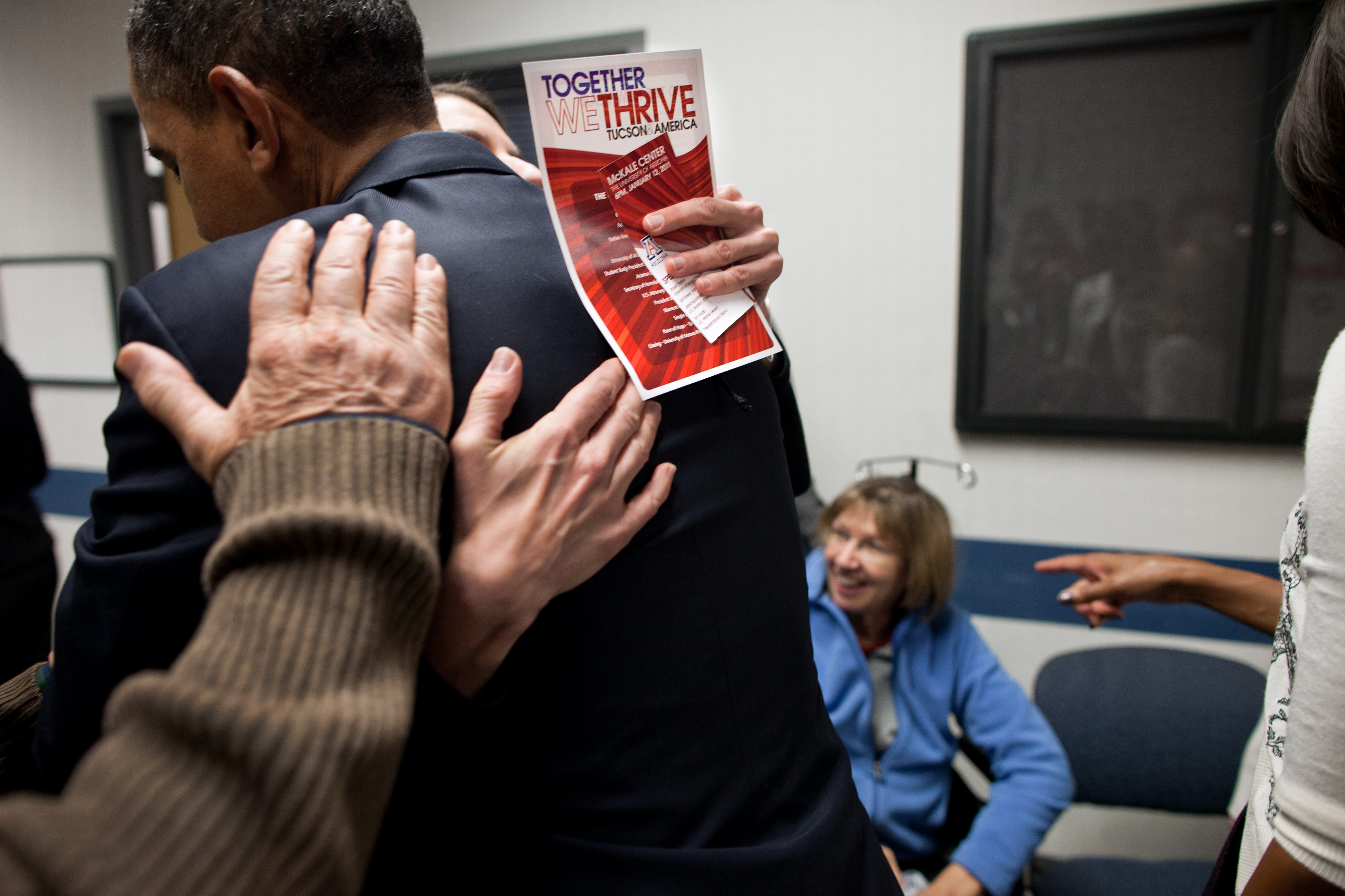 U.S. President Barack Obama and First Lady Michelle Obama greet shooting victims and their family members at the McKale Center before a memorial event for the victims of the 2011 Tucson shooting. Seated in the background is U.S. Representative Gabrielle Giffords' outreach coordinator Pam Simon, who survived being shot twice.